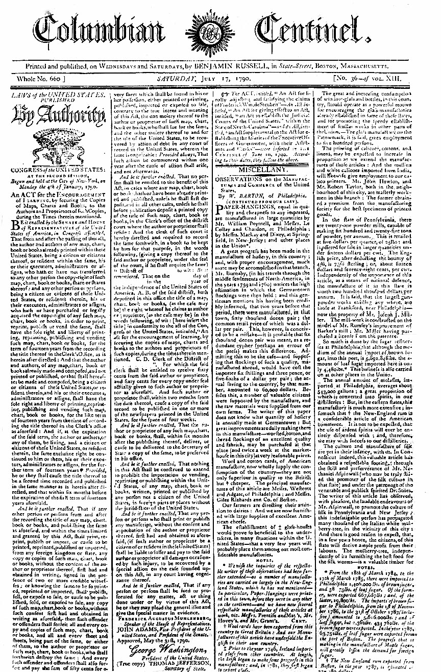 The US Copyright Act of 1790 reprinted in the Colombian Centinel, published 17 July 1790. Full title: "An act for the encouragement of learning by securing the copies of maps, charts, and books, to the authors and proprietors of such copies, during the times therein mentioned." Out of copyright.